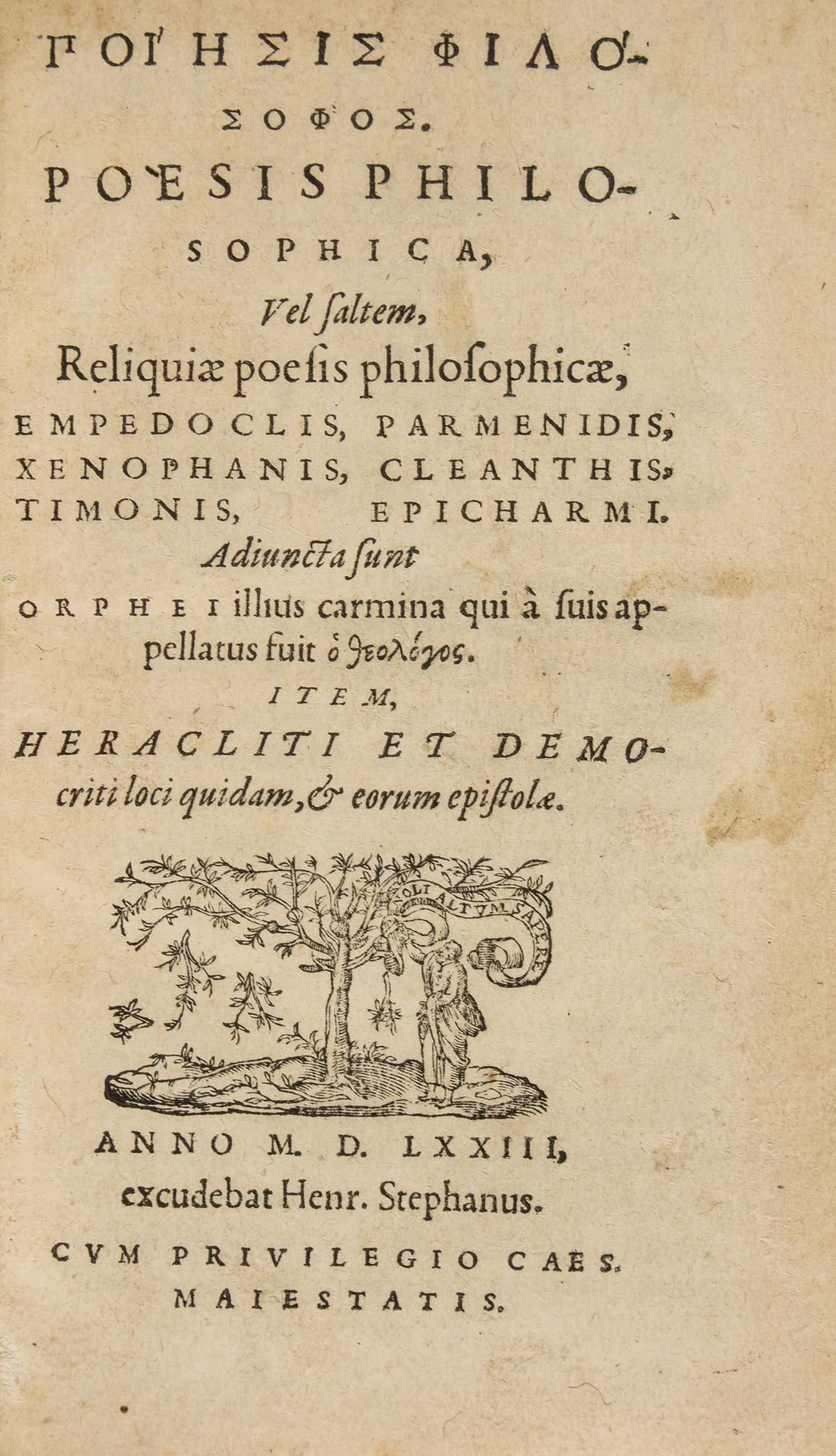 Henri Estienne, 'Poesis philosophica'. First published anthology with presocratic texts, containing forty fragments from Heraclitus.